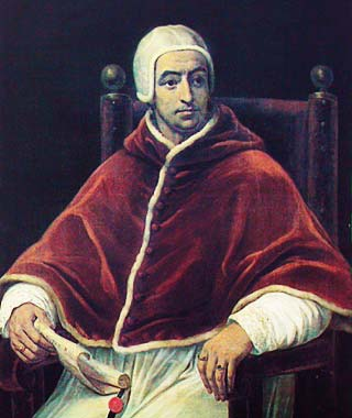 Portrait of Antipope Benedict XIII